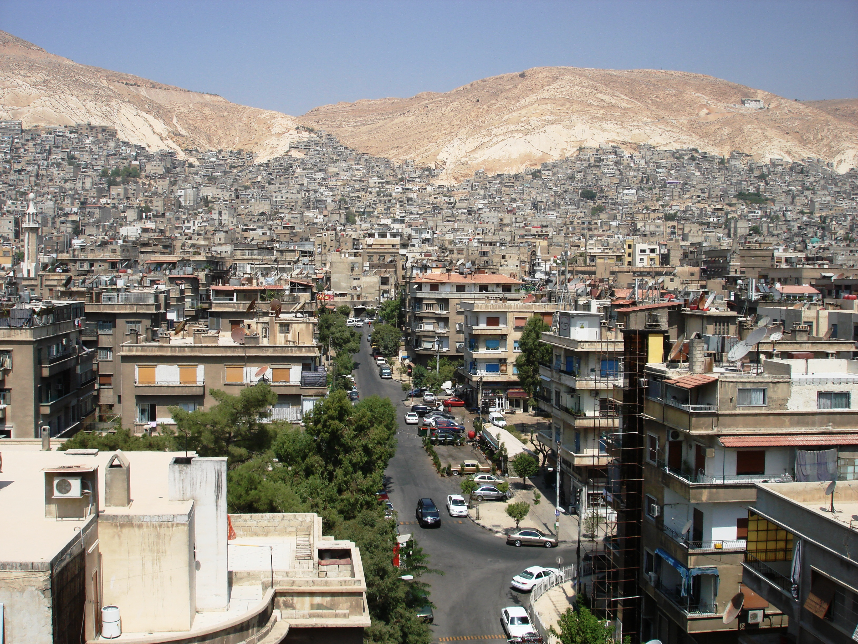 A view towards Sheikh Muhyi-d-Din and Qasioun, Damascus.